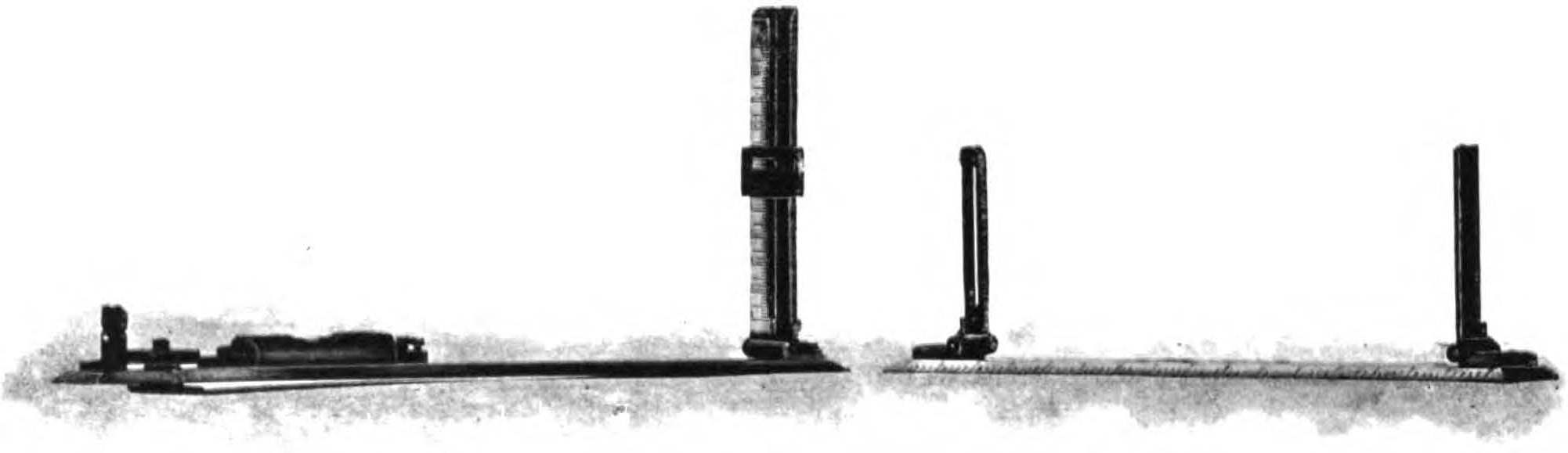 Plate XXXVIII, Figure 2 of 1898 publication called Maryland Geological Survey Volume Two. Caption:Traverse Plane-table Alidades